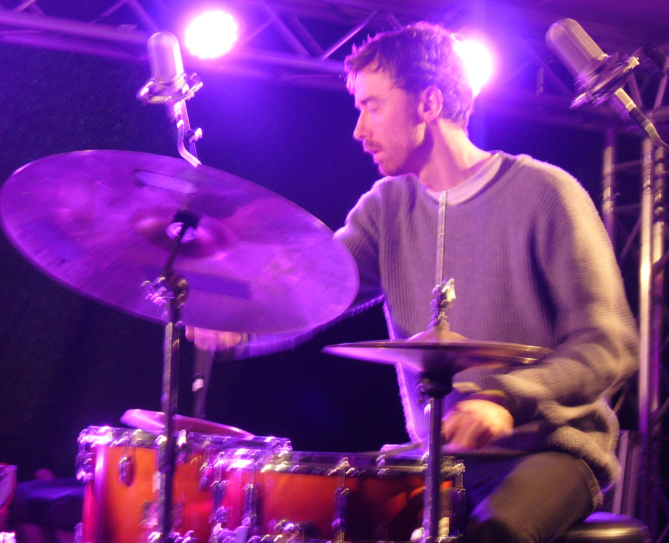 Jan Martin Gismervik with Monkey Plot at Vossajazz 2014.